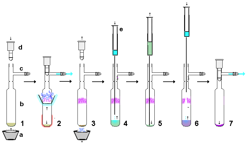 Air-free sublimation Apparatus a = Rubber cone (typically used to form a vacuum seal in a Büchner flask filtration) which is selected so as to fit snugly around the neck of the Schlenk tube b = Schlenk tube c = Gas/vacuum inlet d = Teflon tap (or stopcock) e = Syringe Method steps 1 = Impure solid to sublime (brown) is placed in a Schlenk tube, avoiding contaminating the sides of the tube (e.g. by careful evaporation from a solution containing the brown solid). 2 = Rubber cone (black) is pushed near top of the Schlenk tube (forming a tight seal around flask) and filled with a coolant such as dry ice/acetone (blue/white) to cool the neck of the Schlenk tube. The bottom of the Schlenk tube is heated (red shading) under vacuum (blue arrow), so that the impure solid (brown) sublimes as a pure solid (purple) at the cooled neck area (blue shading). 3 = After sublimation, the cooling-cone (black) is removed, leaving the concentrated impurity as a residue (dark brown) in the bottom of the flask, and the purified sublimed solid (purple) at the neck of the Schlenk tube. 4 = Solvent (blue) is inserted via syringe to dissolve the residue (green/brown), taking care to avoid washing off the sublimed solid (purple). 5 = Residue solution is then removed by syringe (green/brown) (Steps 4 and 5 can be repeated as required). 6 = Purified sublimed solid (purple) is washed off the neck of the flask with fresh solvent (blue) via a syringe. (In steps 3 to 6 the flask is held under an atmosphere of an inert gas via Schlenk tube side arm). 7 = Solvent is removed under vacuum to give the purified sublimed solid (dark purple). Steps 6 and 7 are not essential